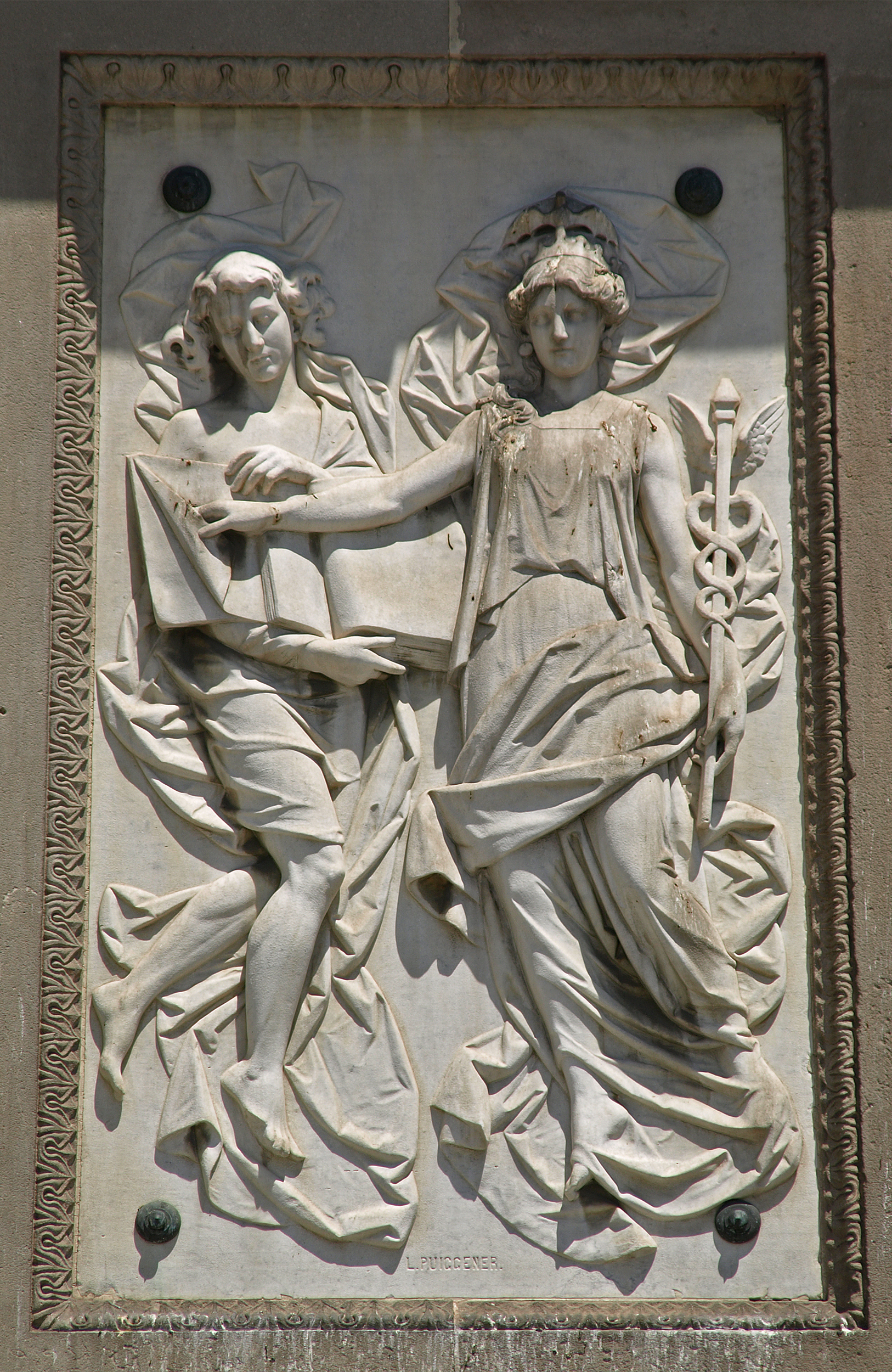 A Lopez Lopez also known as El Negro Domingo, is a sculpture created in 1884 by several prominent artists as Rossend Nob, Joan Roig i Solé, Francesc Pagès i Serratosa, and Lluís Puiggener Venanci Vallmitjana i Barbany. It's located in Barcelona, Spain. - Relief created by Lluís Puiggener